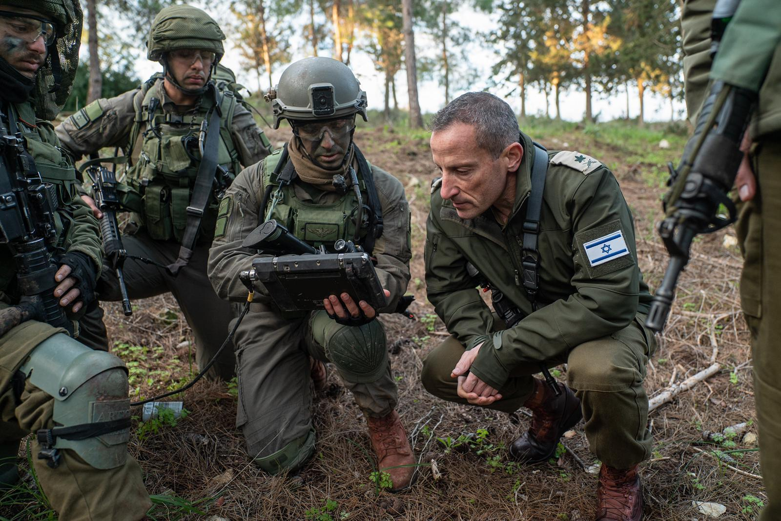 The northern command commander, Amir Baram, during a unit standard test, 2020